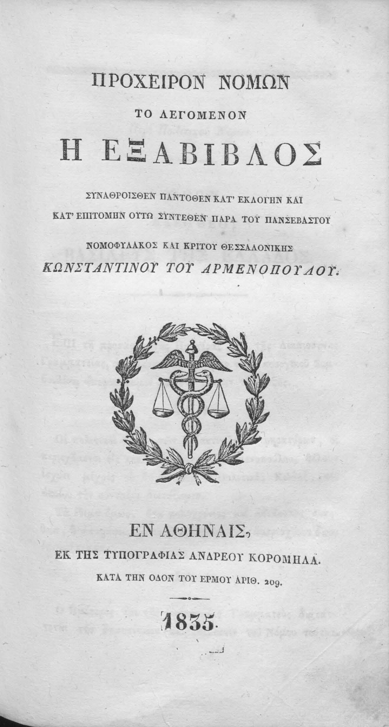 Front page of the Procheiron or Hexabiblos of Constantine Harmenopoulos(1320 - 1380/1385), Athens 1835 edition by Andreas Koromilas, modern Greek translation. Hexabiblos was a Byzantine legal treatise of the 14th century, that continued to be widely used in the Balkan lands throughout the later Ottoman Empire's presence. At 1828, it was adopted by the newly founded Greek state as the state's civic code, where it remained so until 1946.